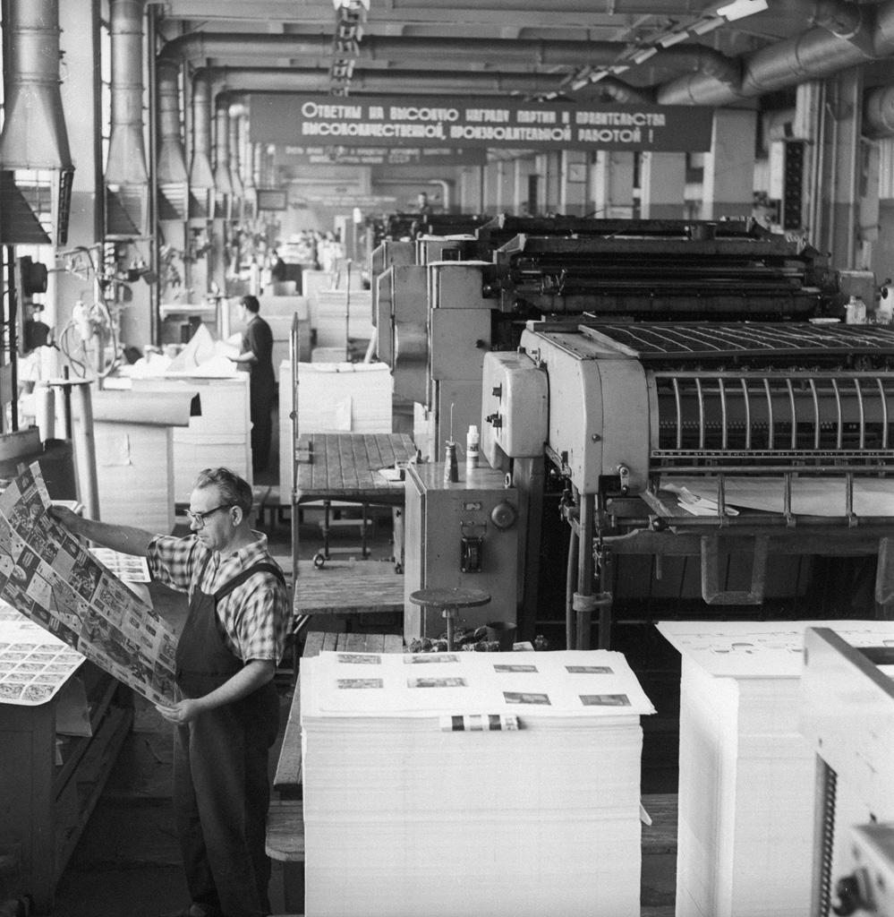 “Moscow Print Shop named after A. Zhdanov”. The 1st Print Shop named after A. Zhdanov in Moscow.